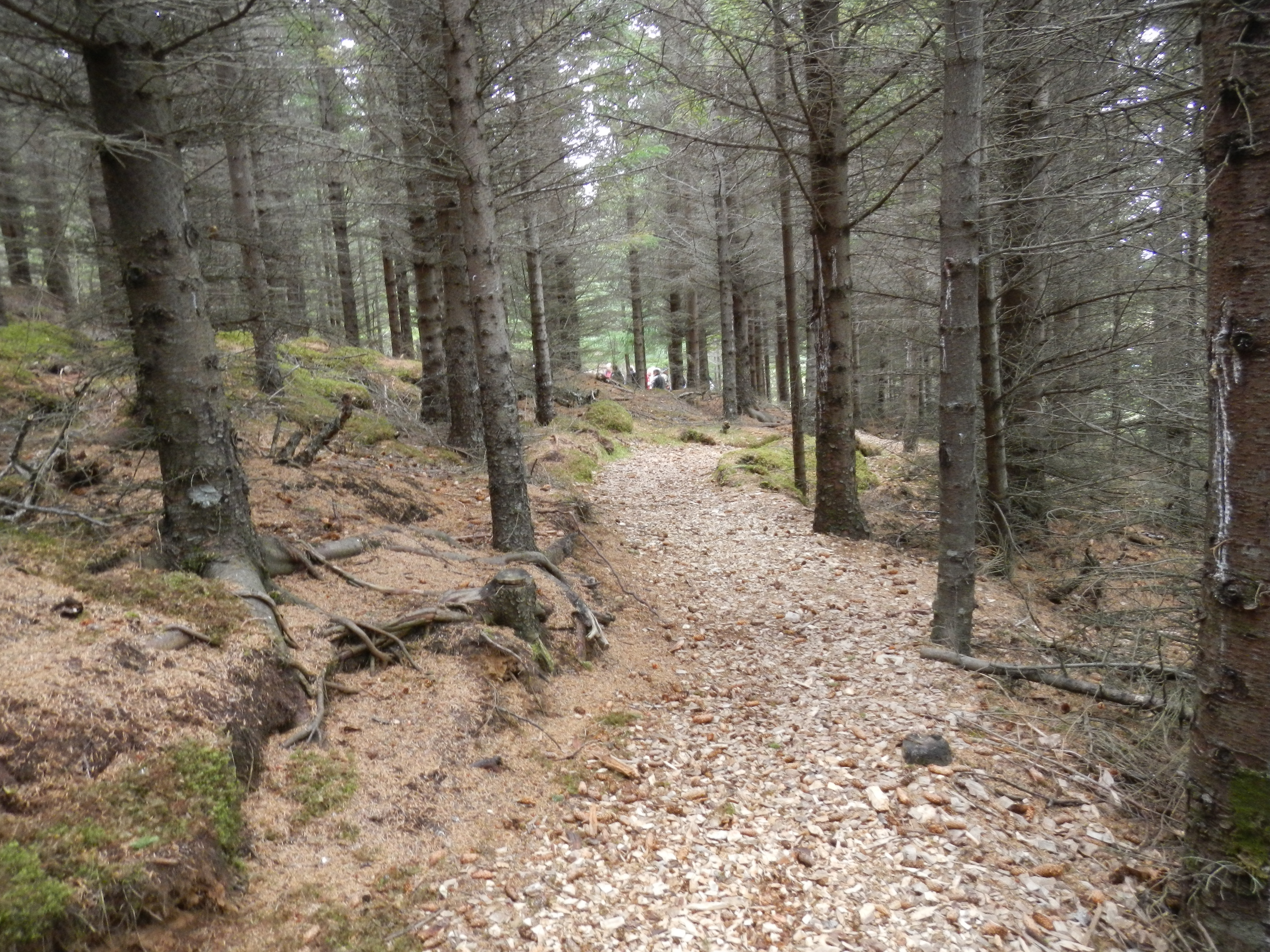 Forest planted in 1962-65. Picea × lutzii